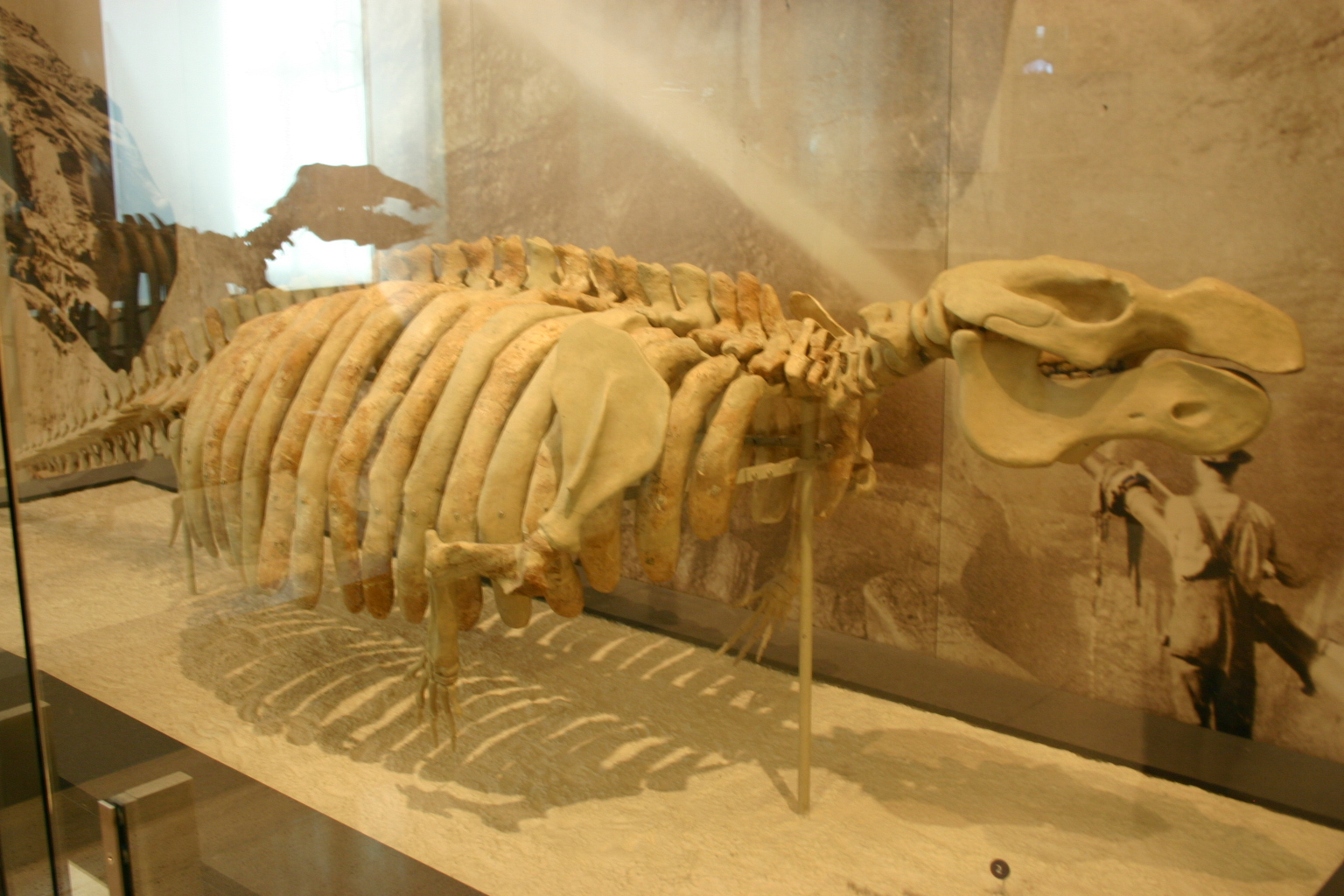 Extinct Manatee Metaxytherium floridanum